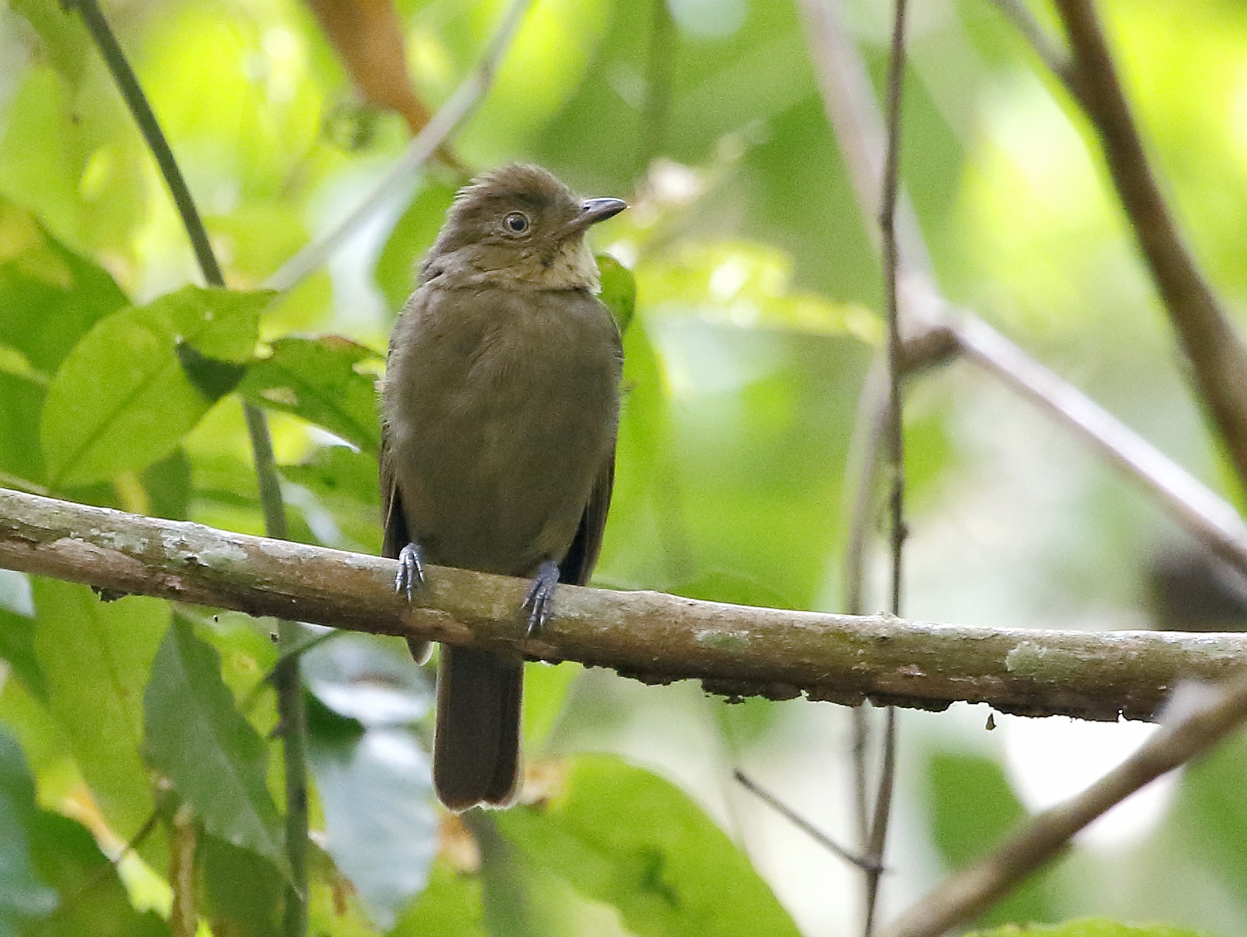 Brown-winged schiffornis at Serra dos Carajás - Pará - Brazportuil